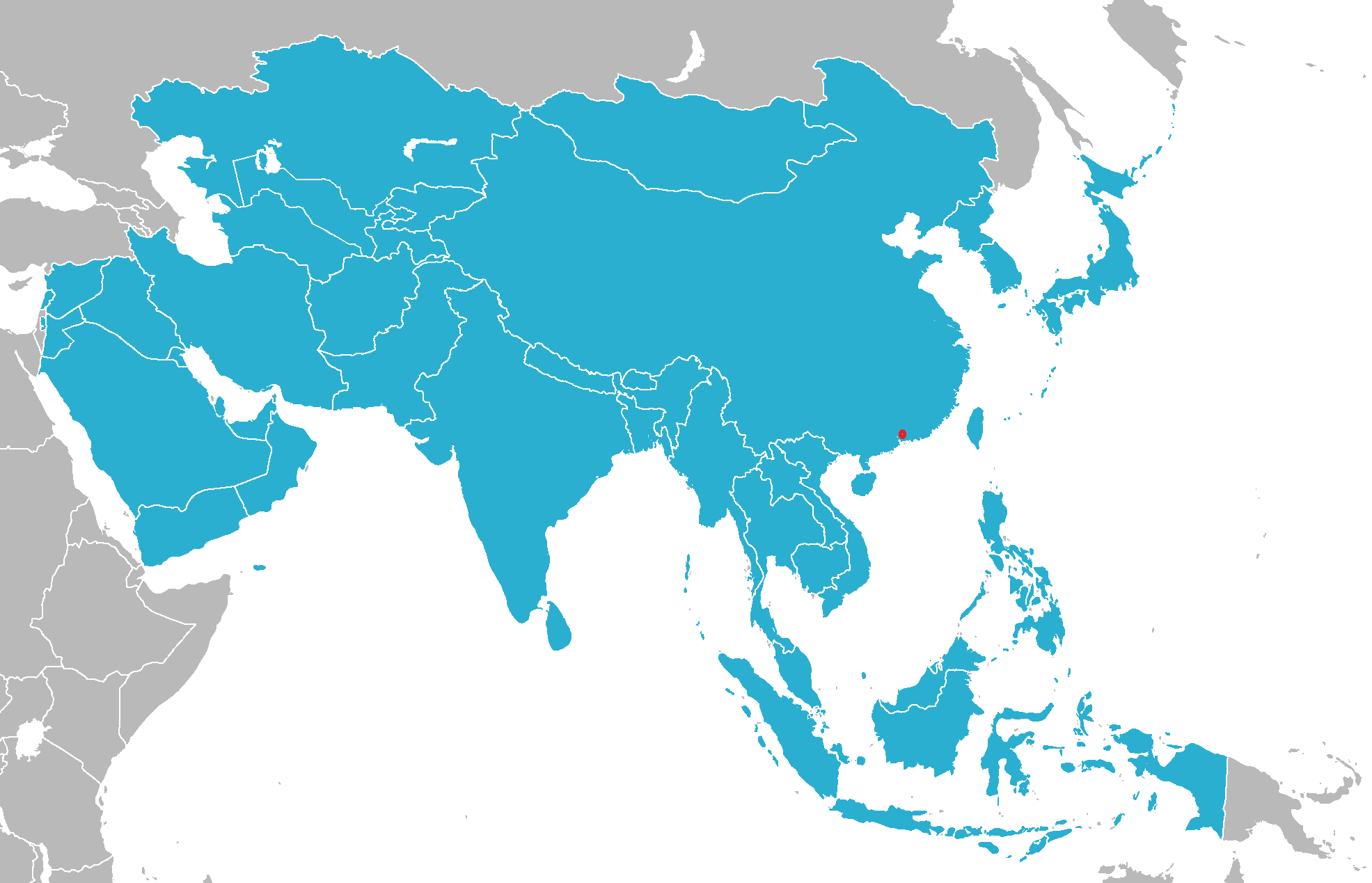 Countries which participated in the 2010 Asian Games. Red circle shows the host city Guangzhou.